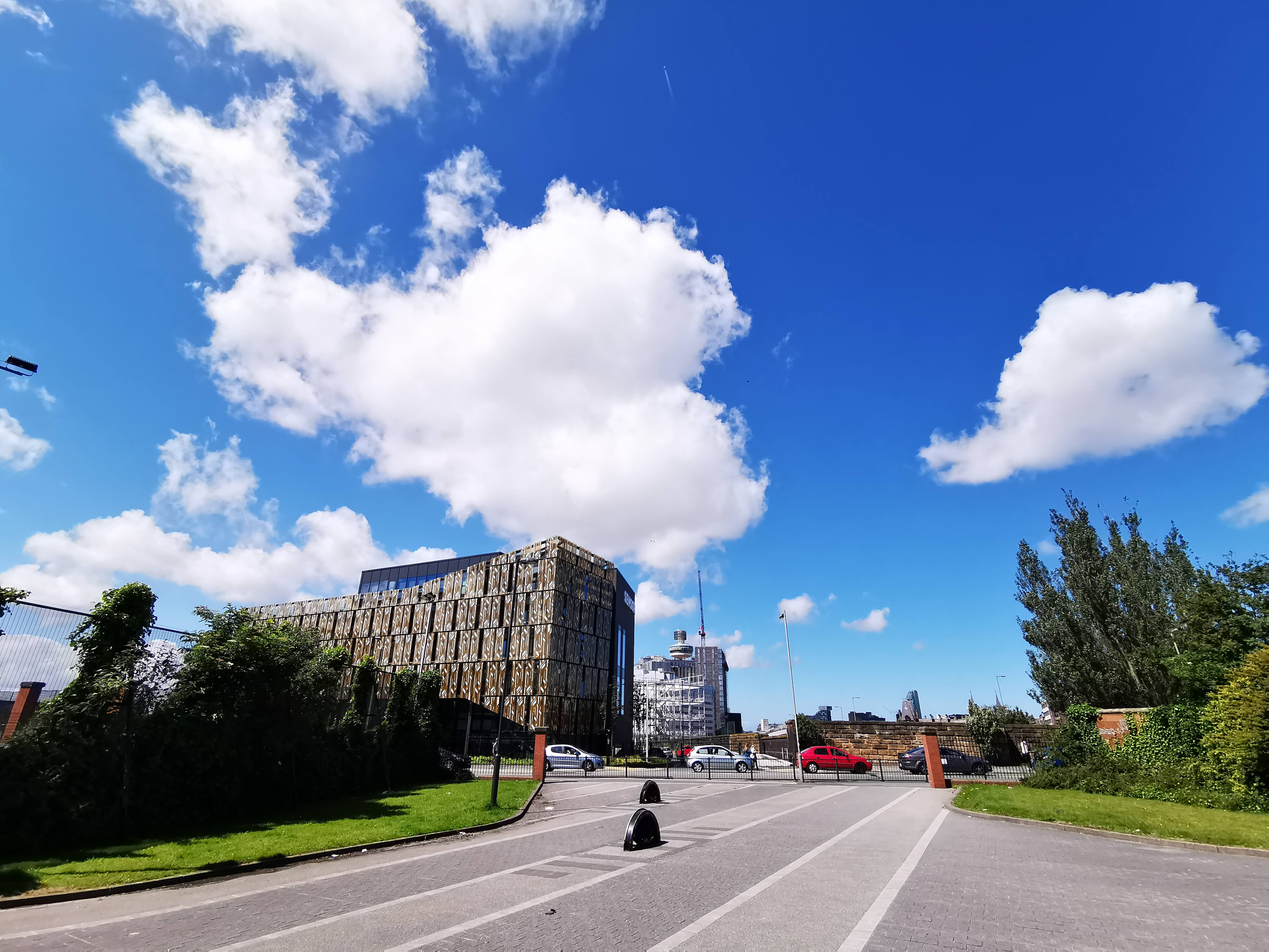 Sensor City, as seen from the former Bronte Street.